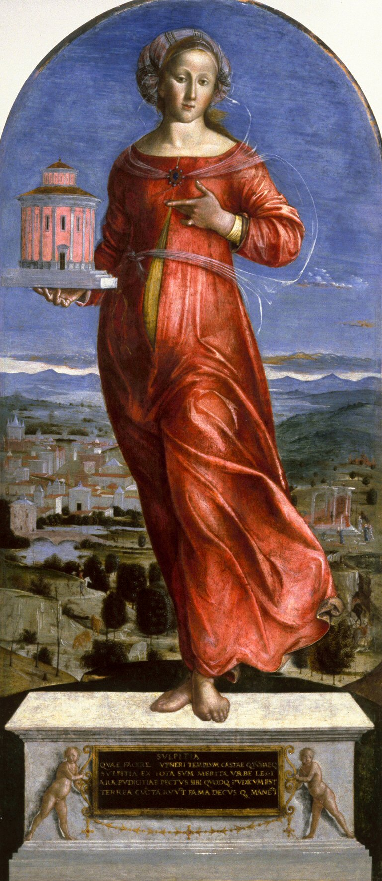 Sulpicia was chosen in the 3rd century BC from among a hundred women in Rome as the most worthy to dedicate a statue to the goddess Venus Verticordia, protector of women. Before an imaginary view of the city of Rome, Sulpicia holds a model of the temple of the goddess. The painting is one of eight surviving related panels depicting Roman men and women who exemplified virtuous behavior. The series was probably made to celebrate the marriage in 1493 of Silvio di Bartolomeo Piccolomini (a relative of Pope Pius II) and was intended to provide moral examples for the bridal couple. The artist's fascination with antiquity is visible not only in the subject matter but also in the classicizing linear gracefulness of the human form and the ornament of the base.